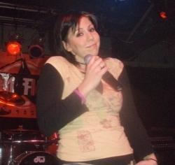 At a club performance.